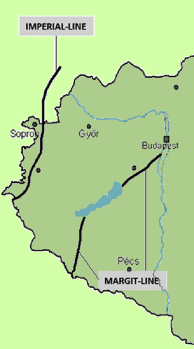 Main defensive lines in western Hungary during the second world war (1945)